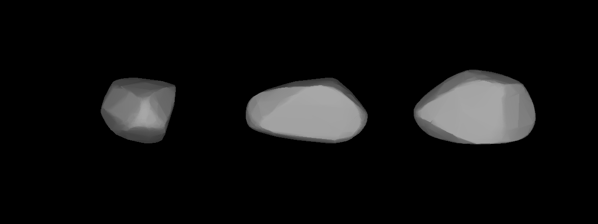 A three-dimensional model of 812 Adele that was computed using light curve inversion techniques.